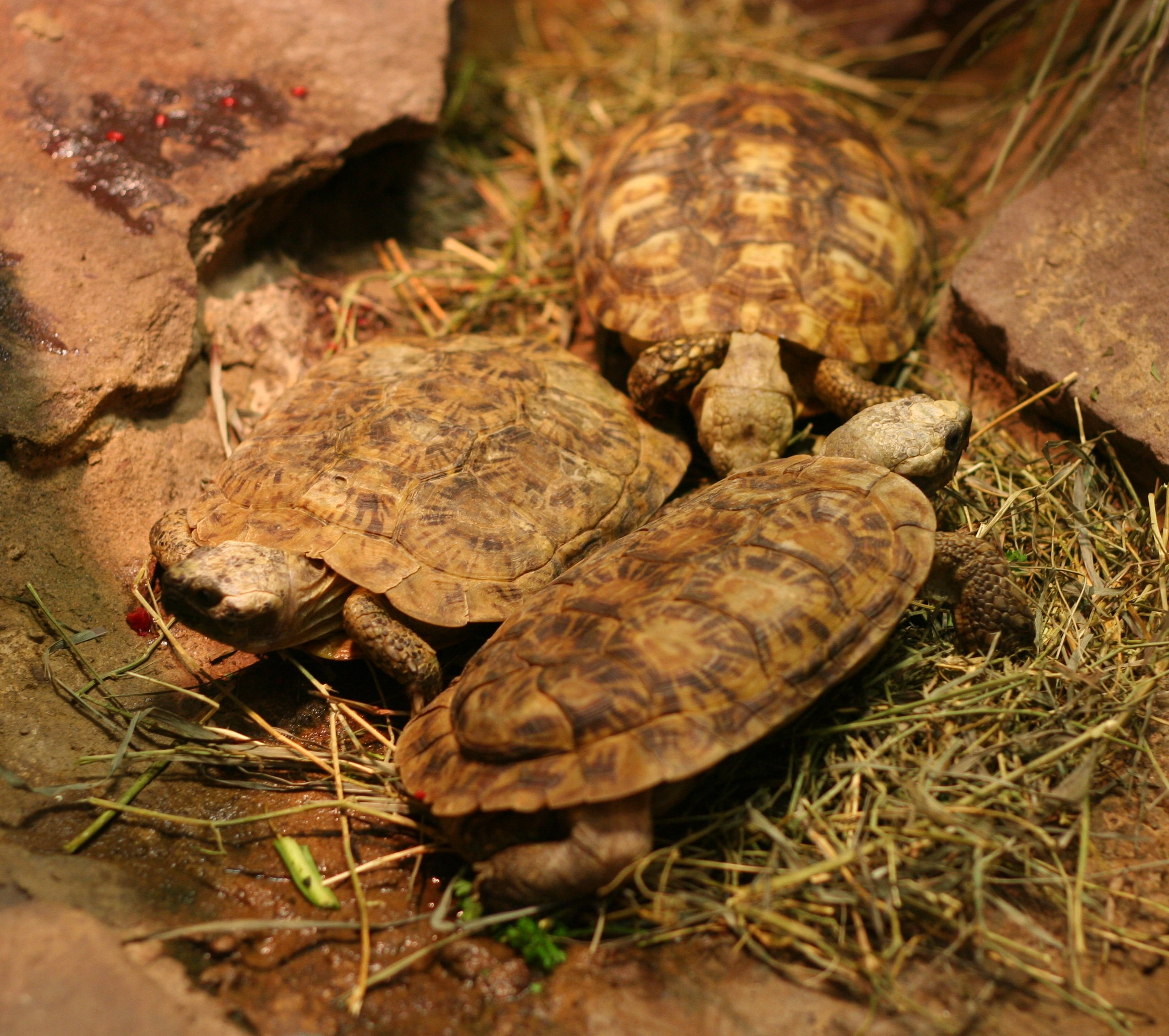 Pancake tortoises (Malacochersus tornieri) at the Buffalo Zoo